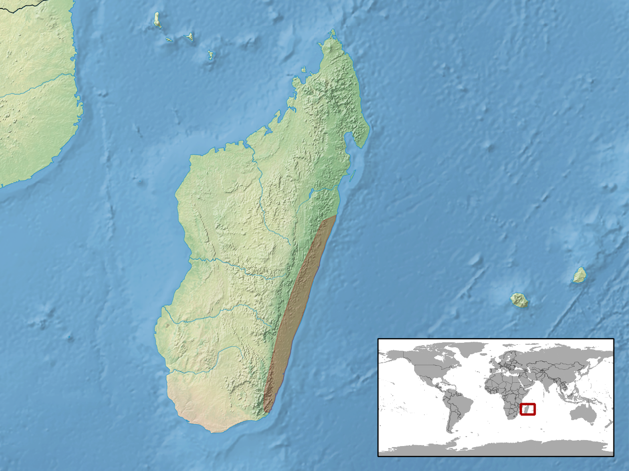 geographic distribution of Phelsuma parva (Native: Madagascar)